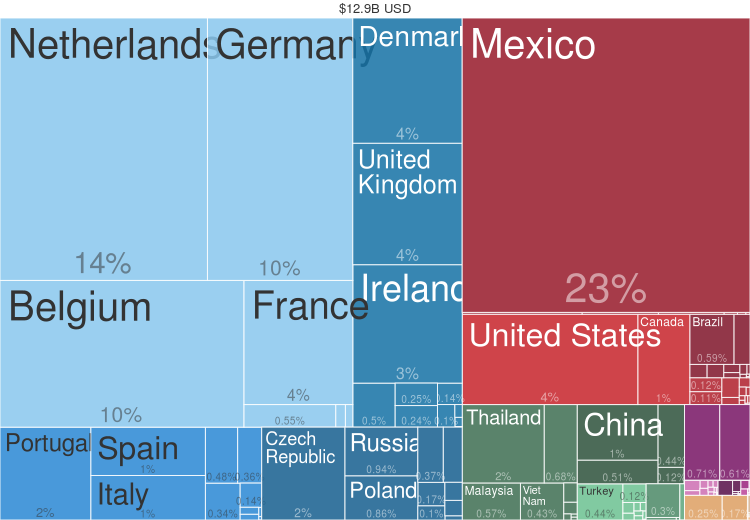 2014 Beer Countries Export Treemap